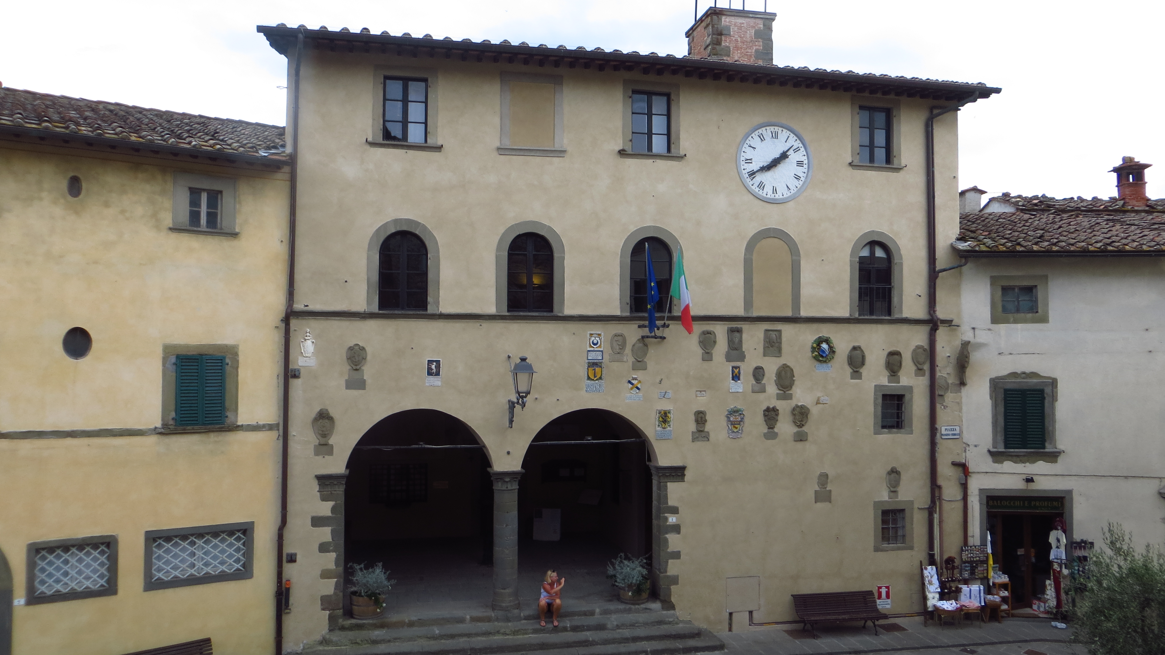 Palazzo Pretoria in Radda in Chianti, Tuscany, Italia